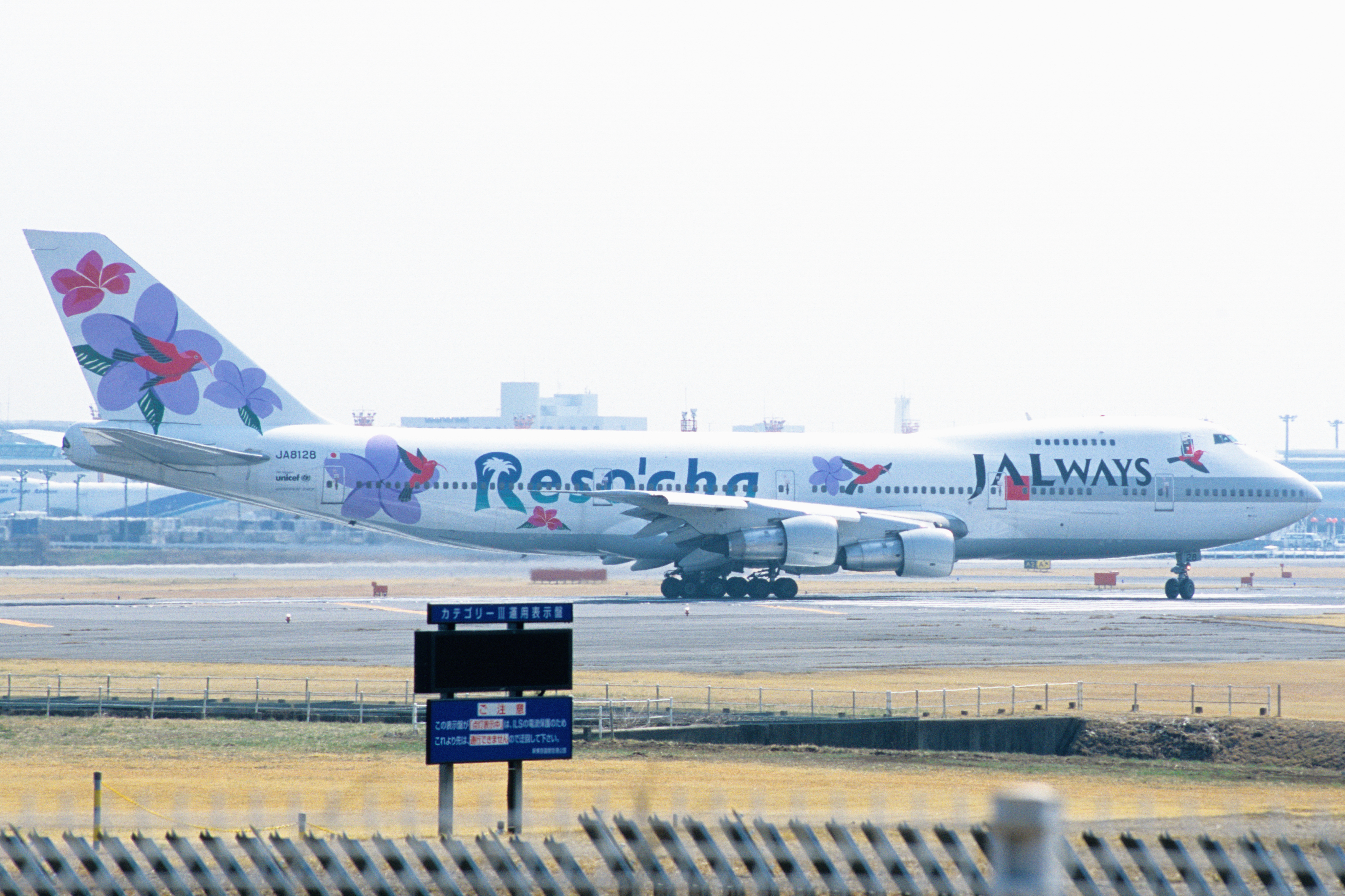 Historic Photo